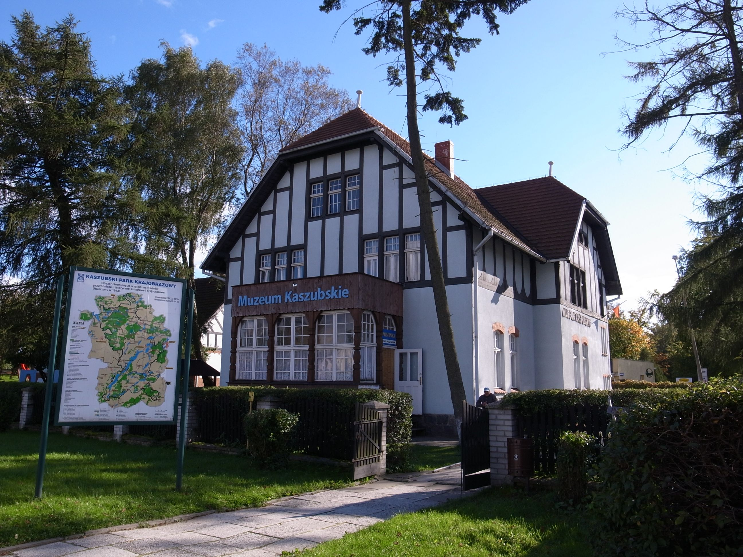 Kashubian Museum in Kartuzy, Poland